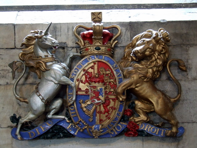 Lion and Unicorn On the north wall, inside St Michael's Church.